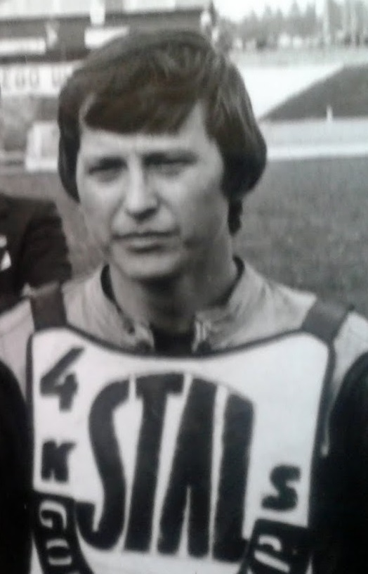 Boguslaw Nowak - polish speedway rider.